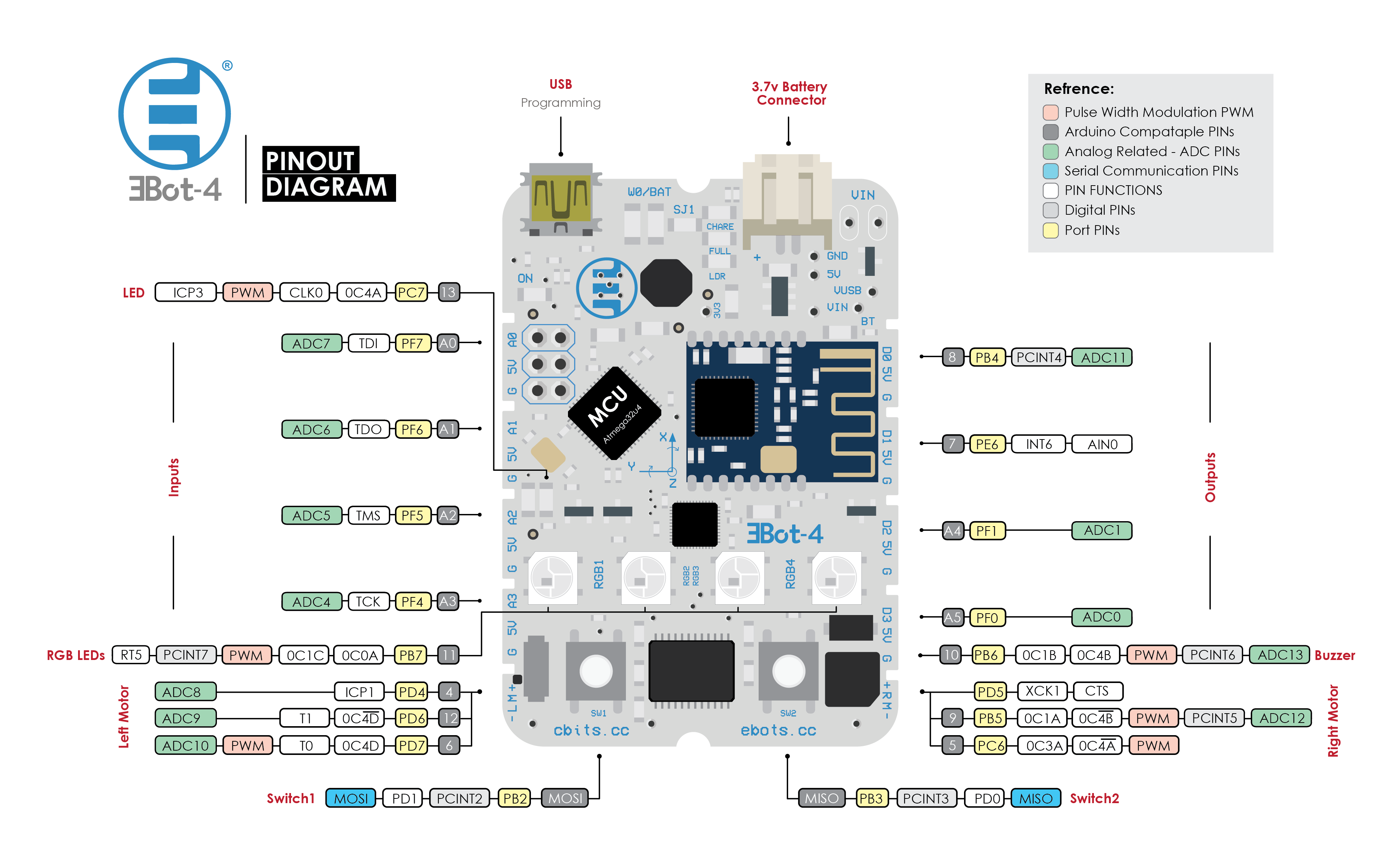 Ebot-4 Pinout Diagram